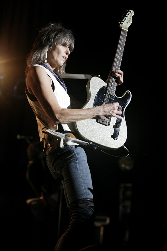 Chrissie Hynde, © 2001-13 Photo-Grafitti